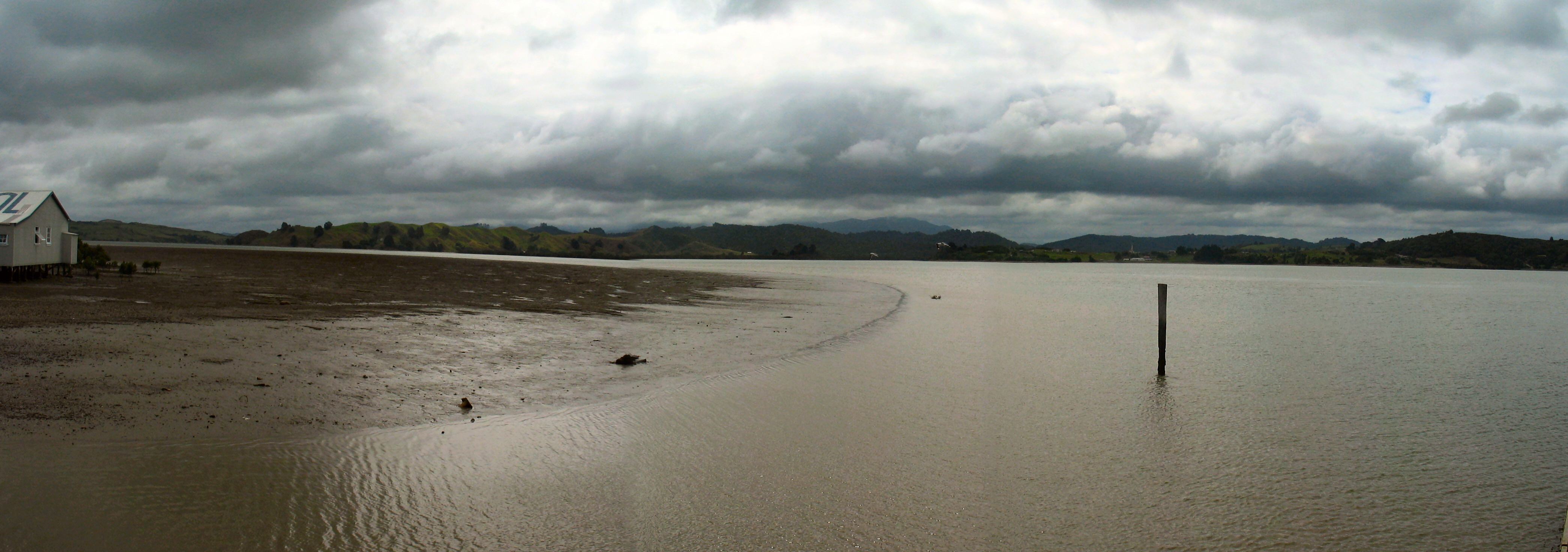 Hokianga harbour, Northland, New Zealand. Photo taken from Rawene.